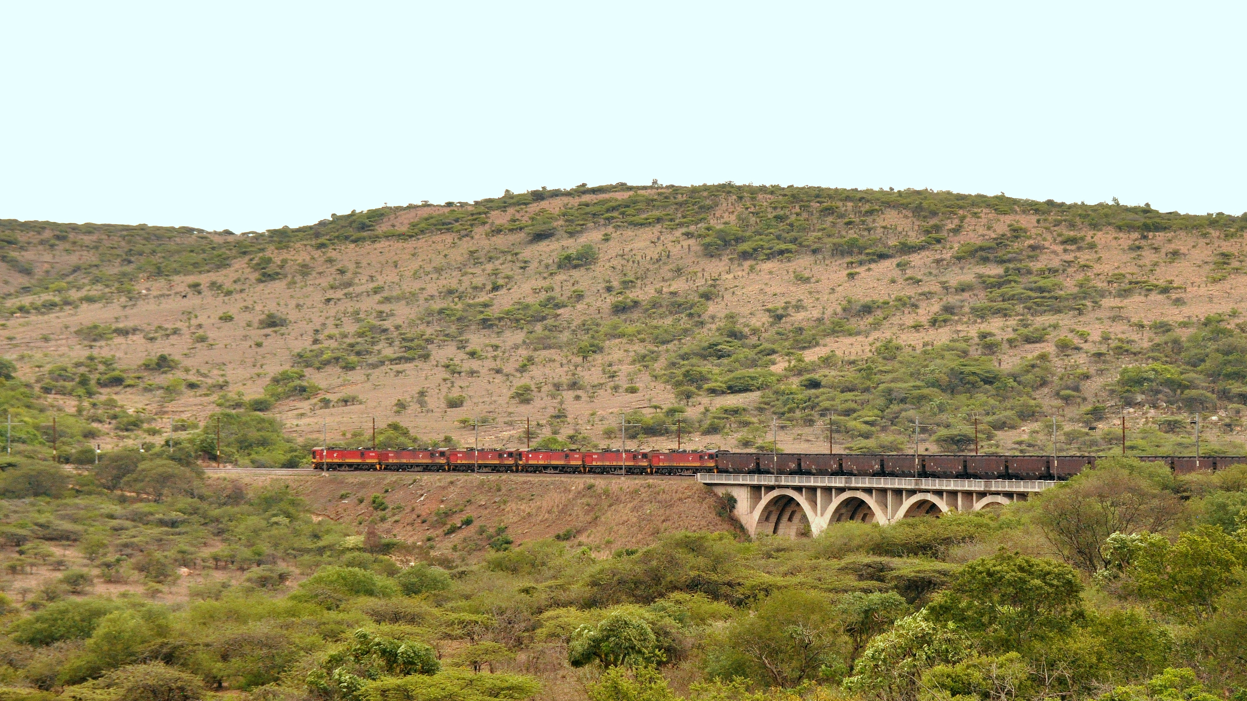 6 x 19E locomotives crosses with an empty 200 wagon train the Ndlovane River Bridge.